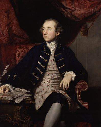 Warren Hastings (1732-1818)